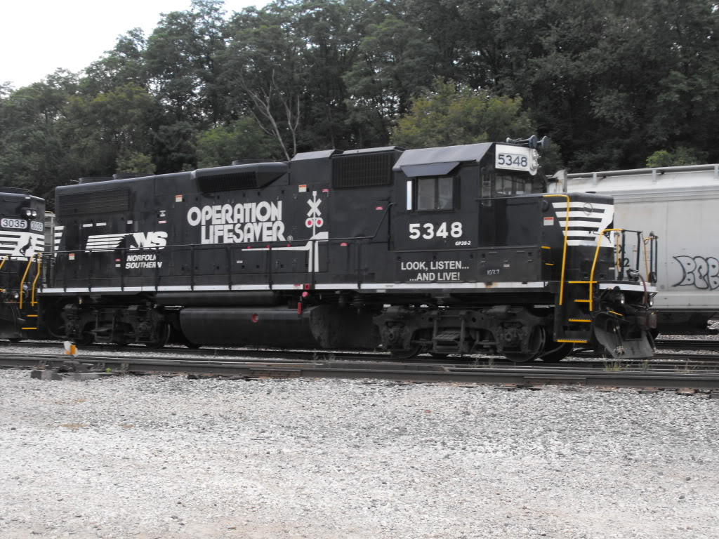 NS #5348 Hinman Yard Battle Creek, Michigan